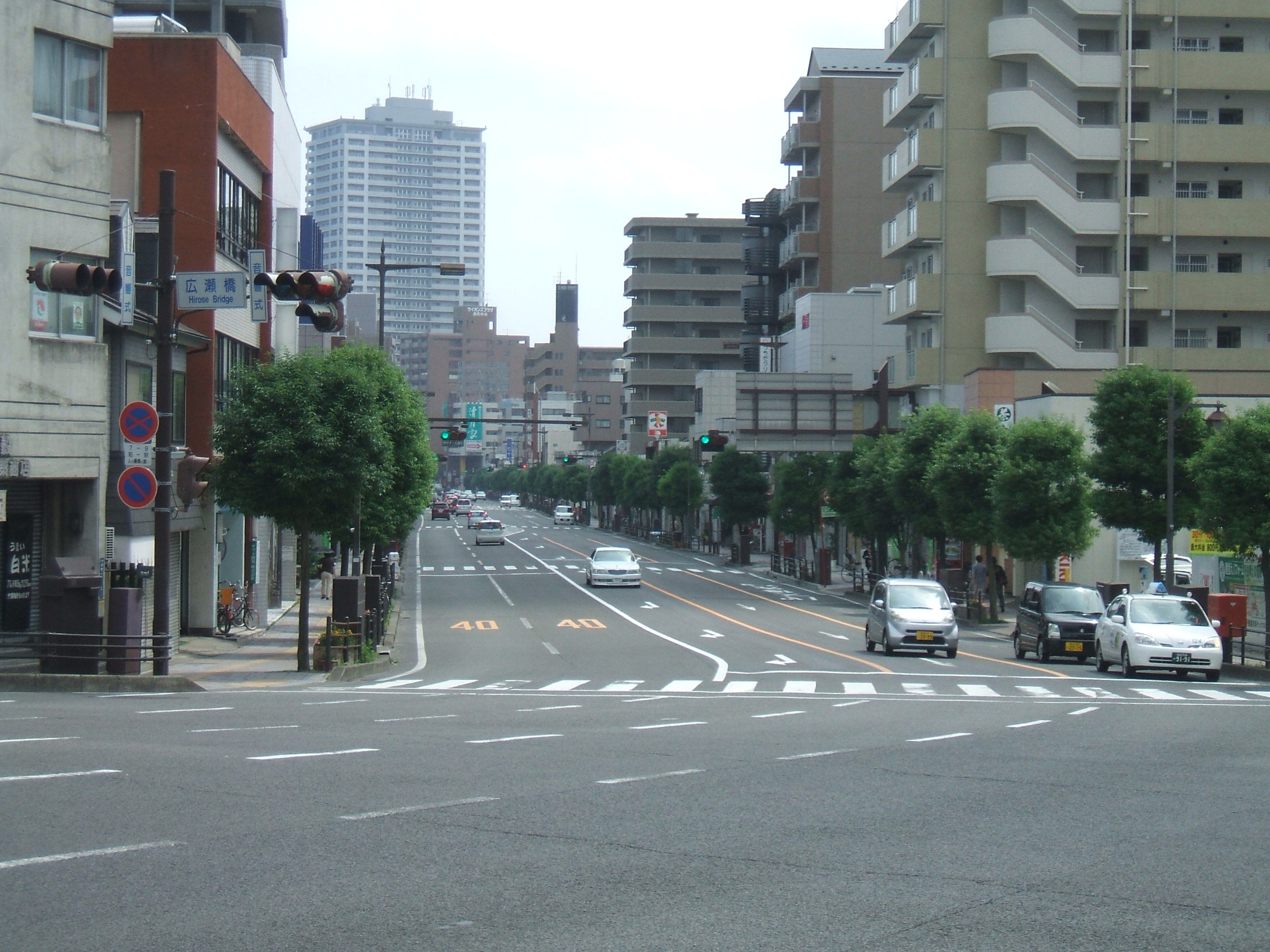 This is a landscape of Nagamachi, Taihaku-ku, Sendai City.